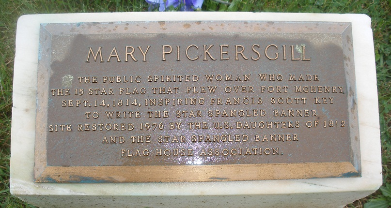 Photo of grave plaque of Mary Young Pickersgill, Loudon Park Cemetery, Baltimore, Maryland, taken 12 June 2012